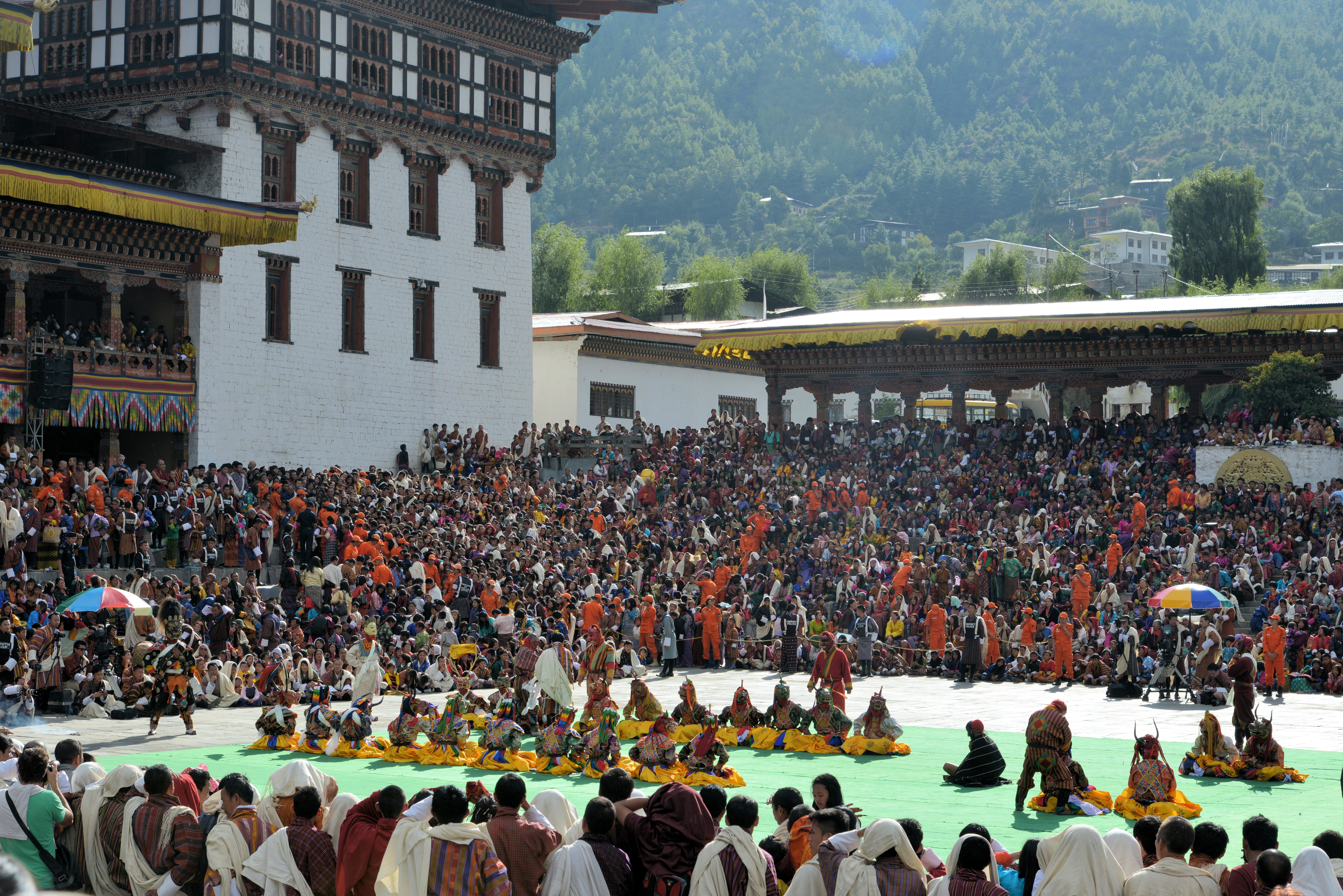 View of Thimpu Tsechu